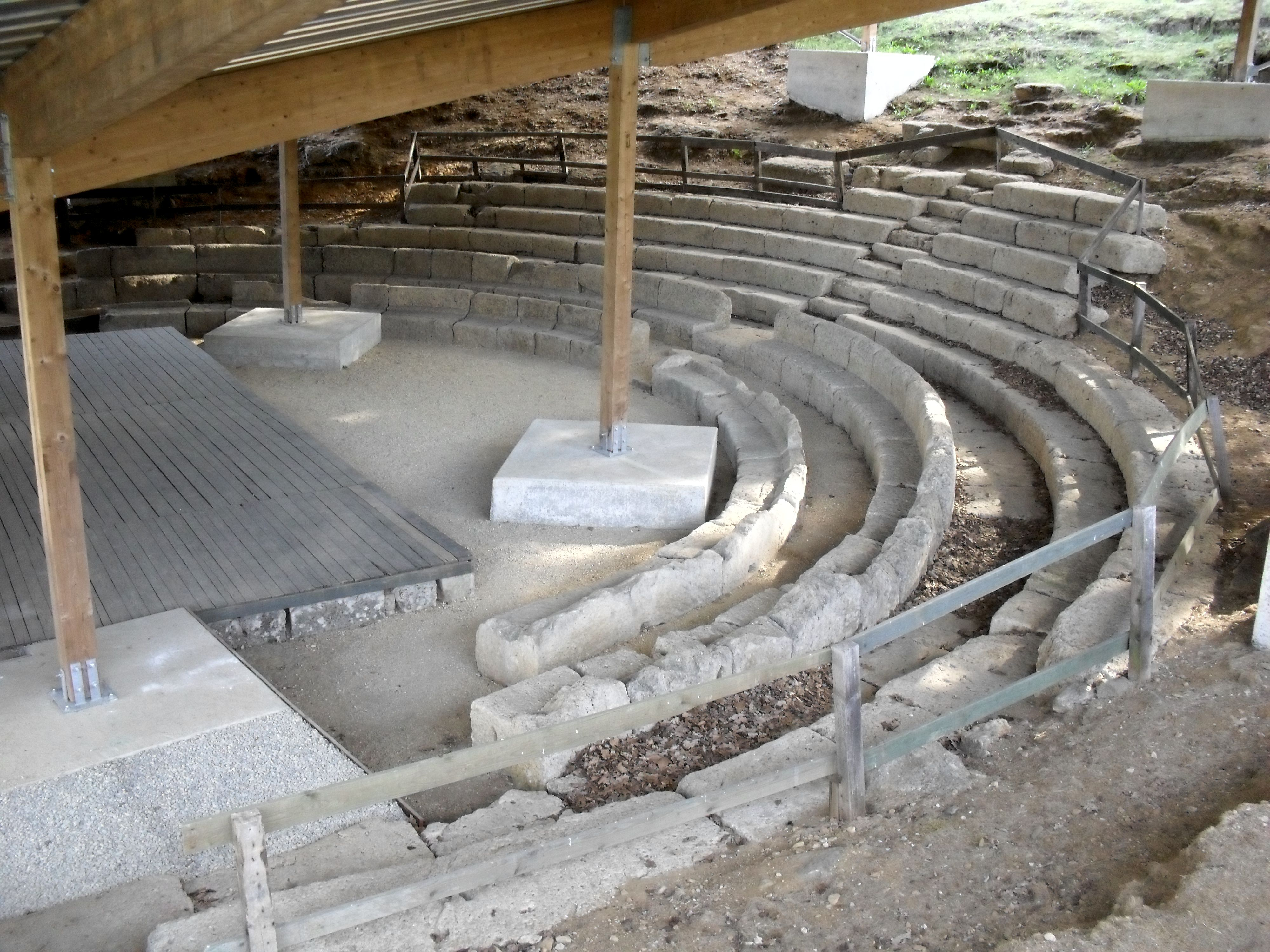 The roman theatre in Dalheim, Luxembourg. A roof was built to protect it.